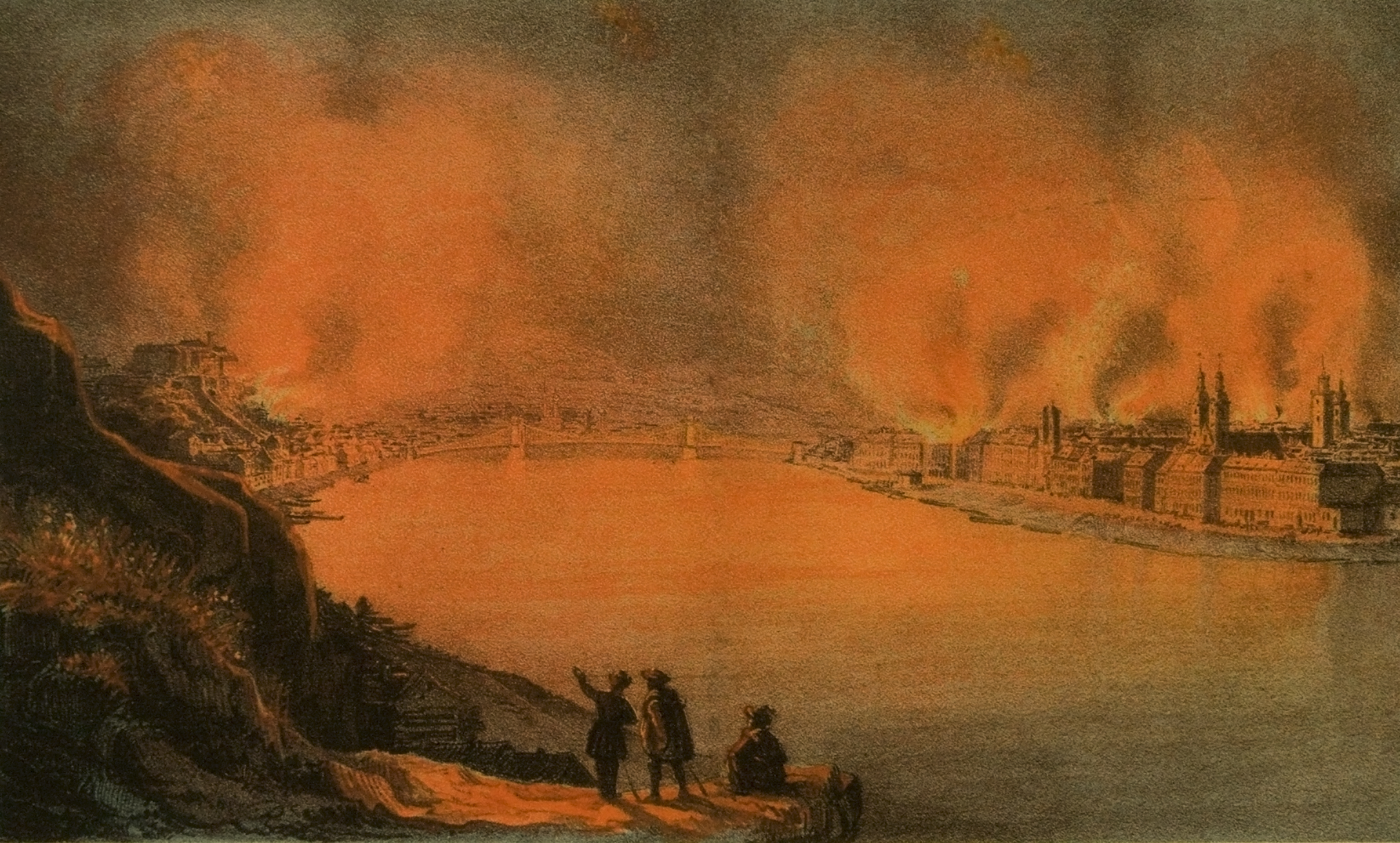 The shelling of Pest by the Austrian commander of Fort Buda, Gen. Hentzi